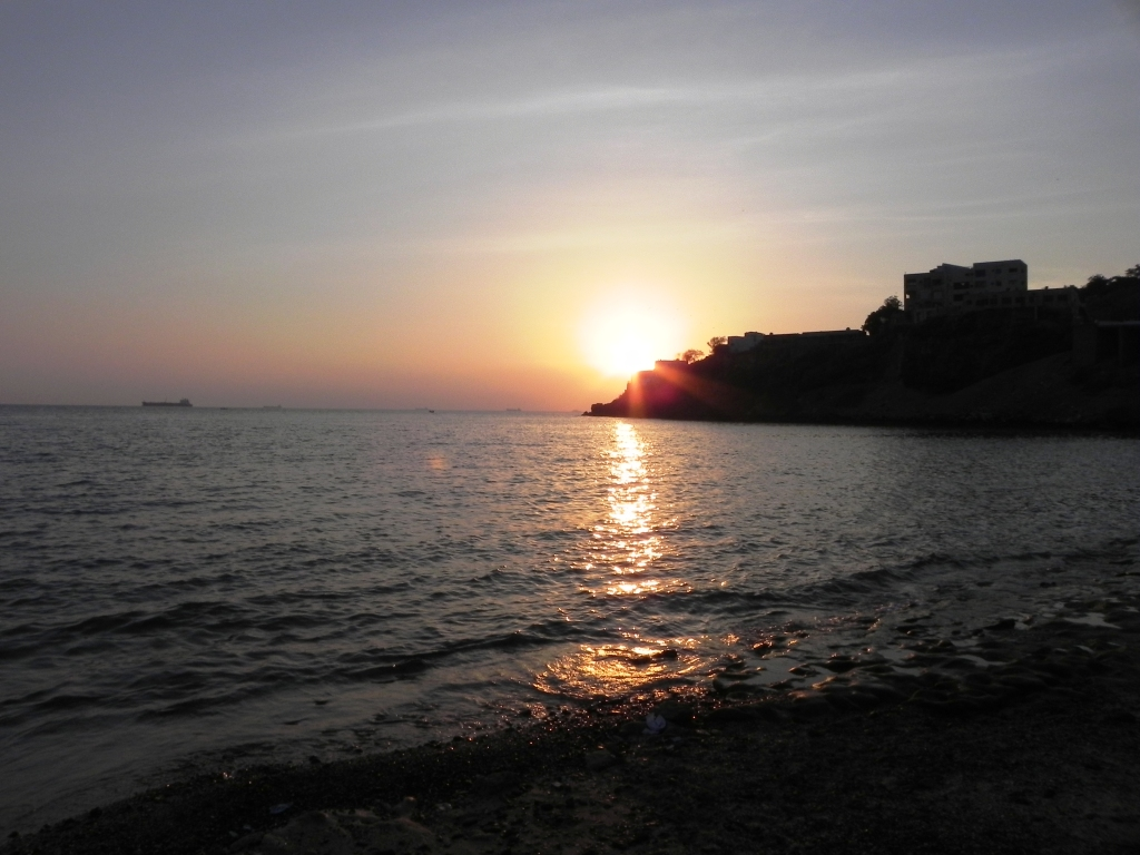 Aden gold-moor.